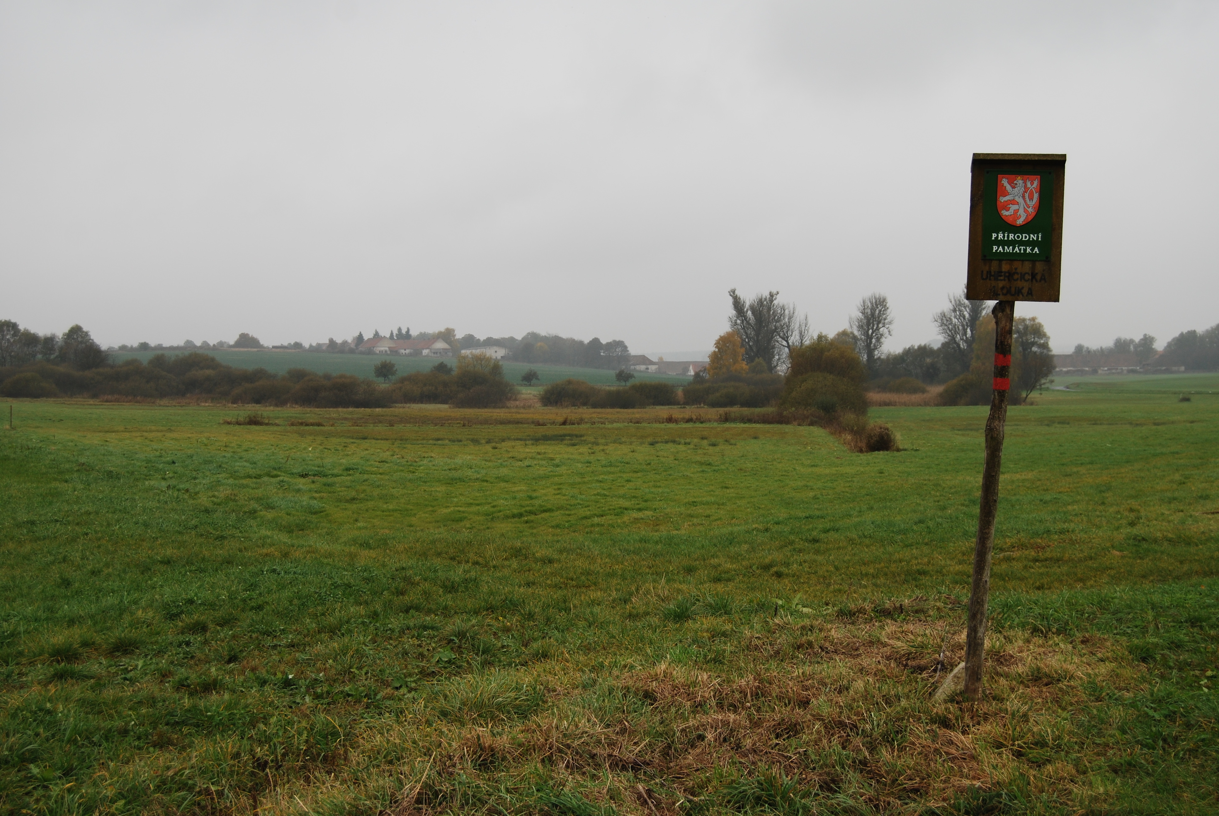 Natural monument Uherčická louka in Znojmo District, Czech Republic